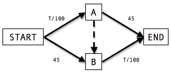 Braess Paradox Roads Example